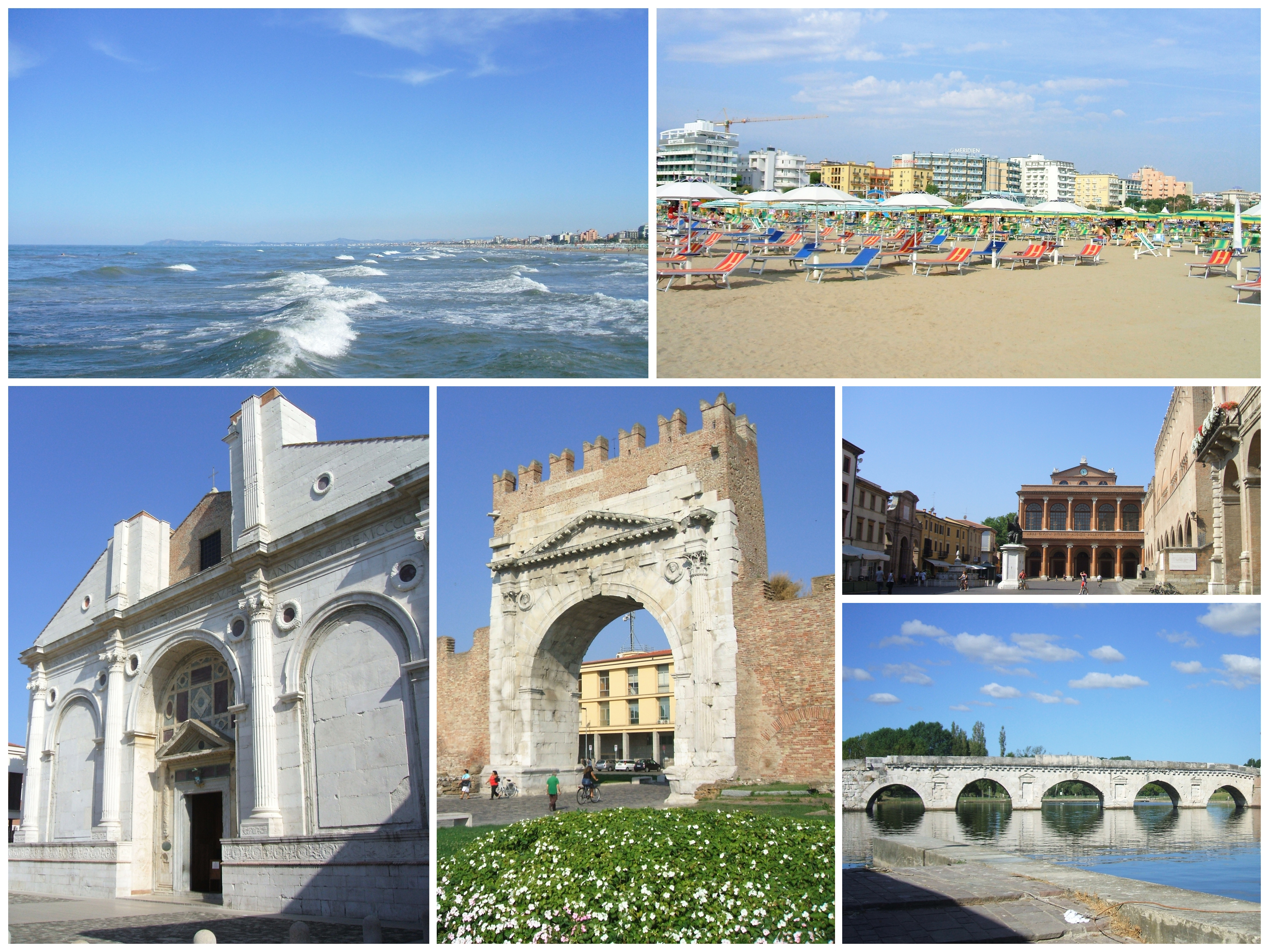 Montage of Rimini pictures: waterfront, beach, Malatesta Temple, Augustus' Arch, Cavour Square and Tiberius' Bridge